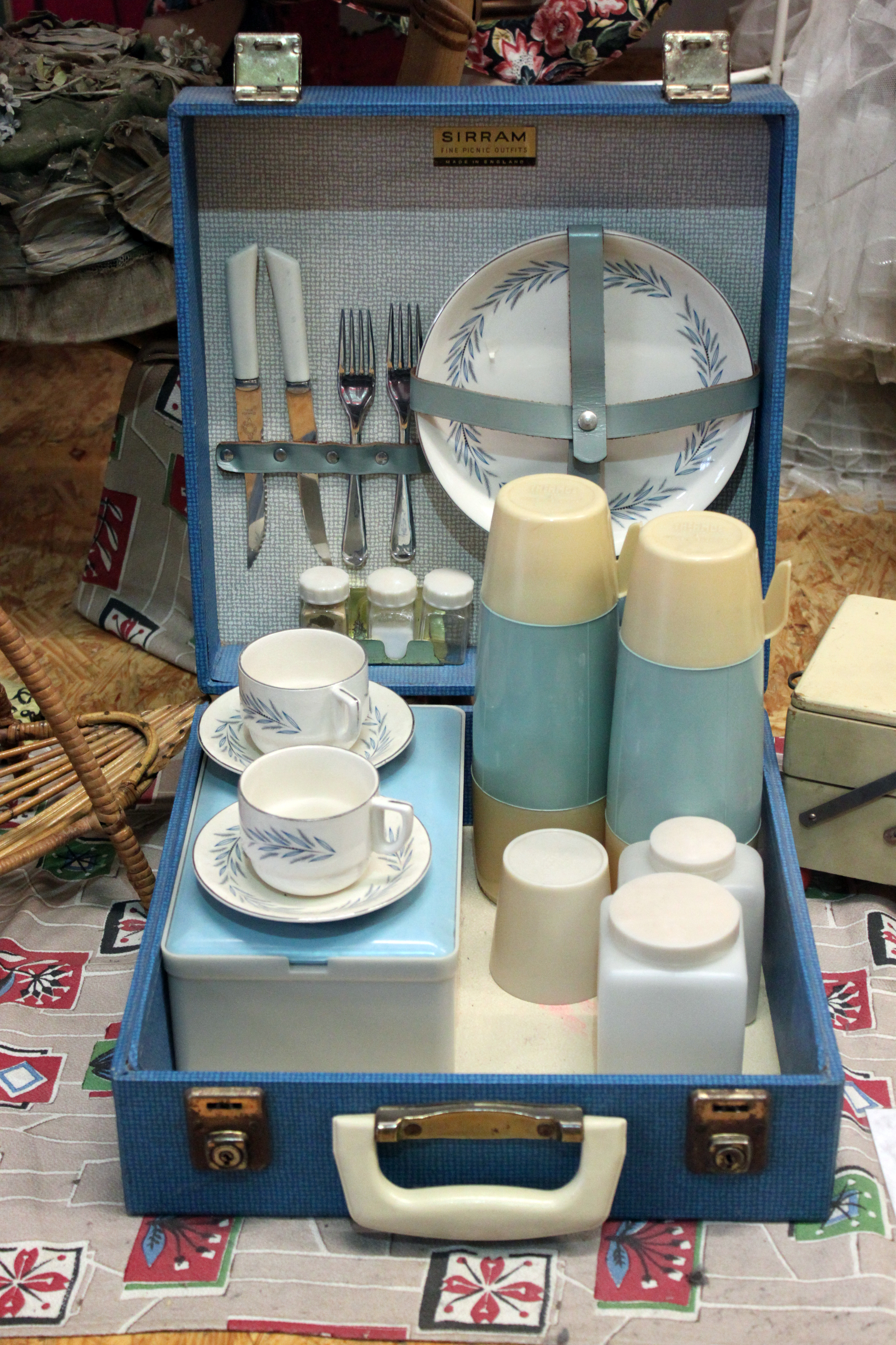 Picnic Basket in the Technikmuseum Speyer, 1955